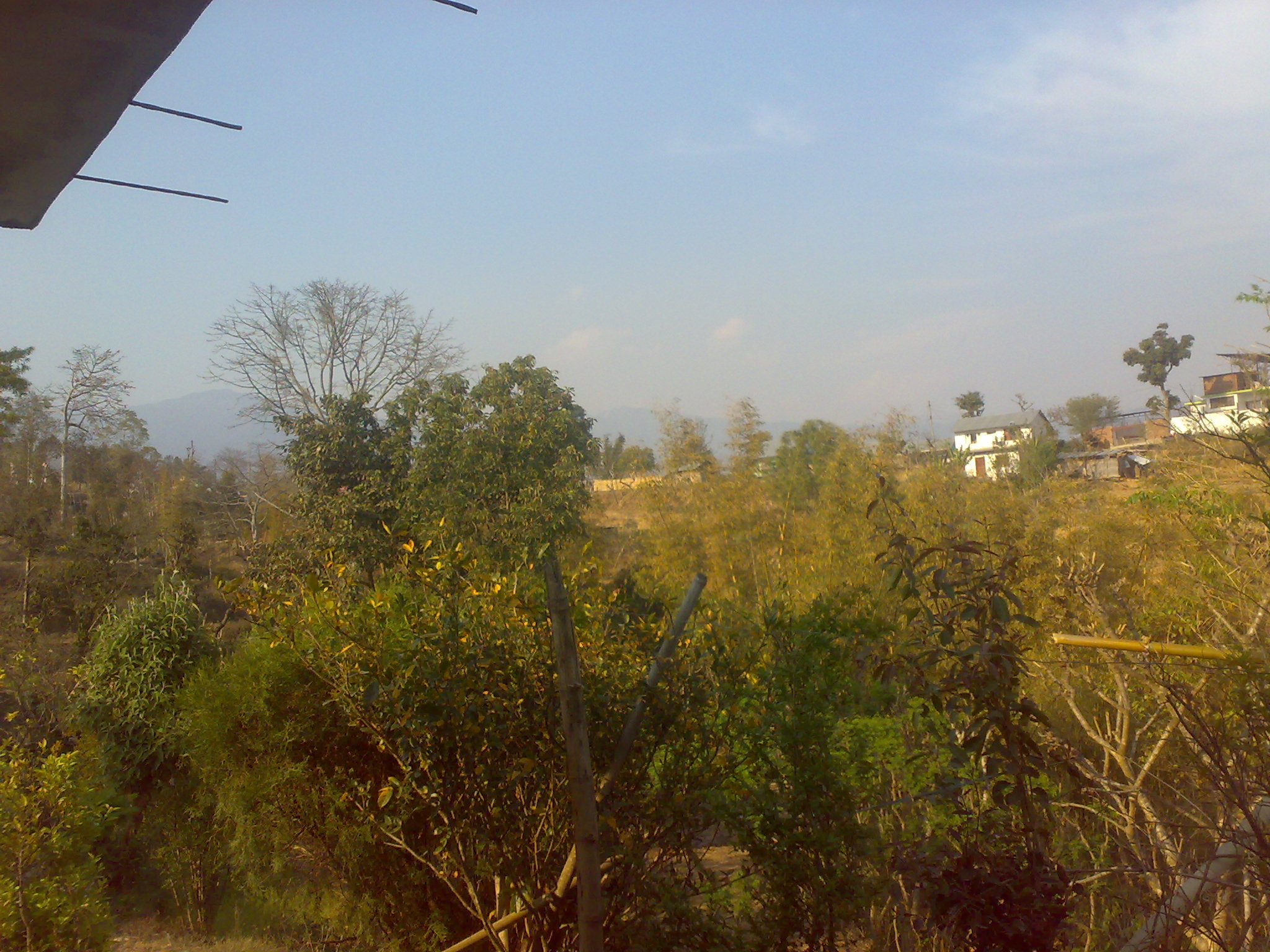 Dewantar lies in hte opposite side of Balmandir. It is densely populated than Balmndir